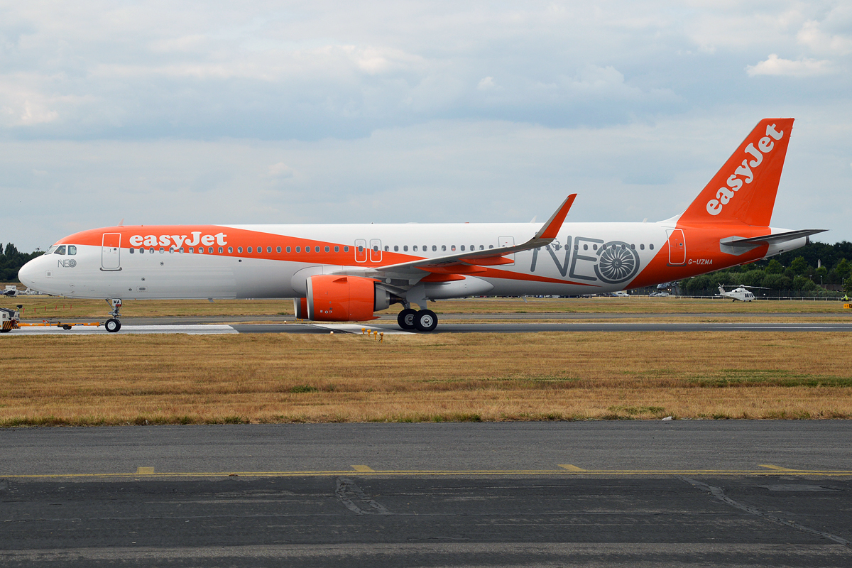 EasyJet, G-UZMA, Airbus A321-251NX